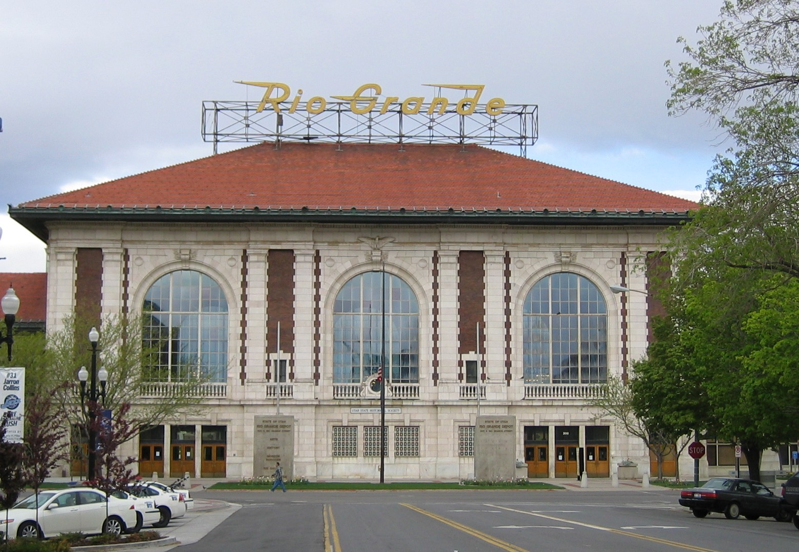 Built in 1910 by Denver Rio Grande & Western railroad and also used as the eastern terminus for Western Pacific railroad. It was used by Amtrak at one time, but now houses offices of the Utah State Historical Society, and a restaurant. All tracks have been removed and Amtrak moved into an Amshack a 1/4 mile away.